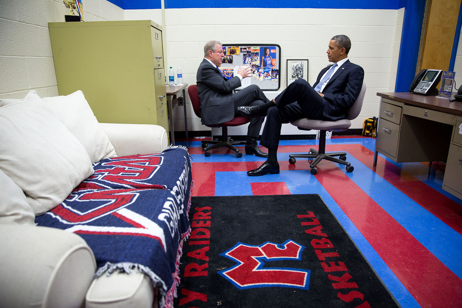 President Barack Obama talks with former Vice President Al Gore at McGavock Comprehensive High School in Nashville, Tenn., Jan. 30, 2014. (Official White House Photo by Pete Souza)